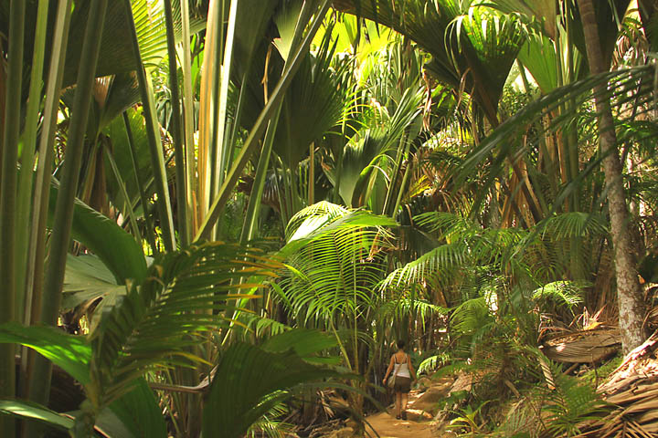 National park Vallee de Mai, Praslin